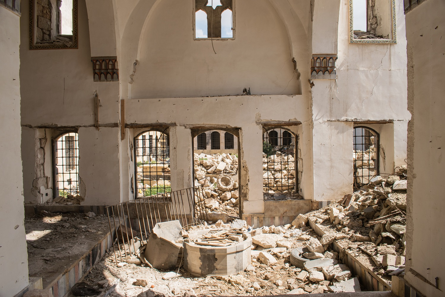 Beit Ghazaleh, an old 17th-century mansion characterized with fine decorations, looted and damaged by explosions by the armed conflict in Aleppo (2012-2016)